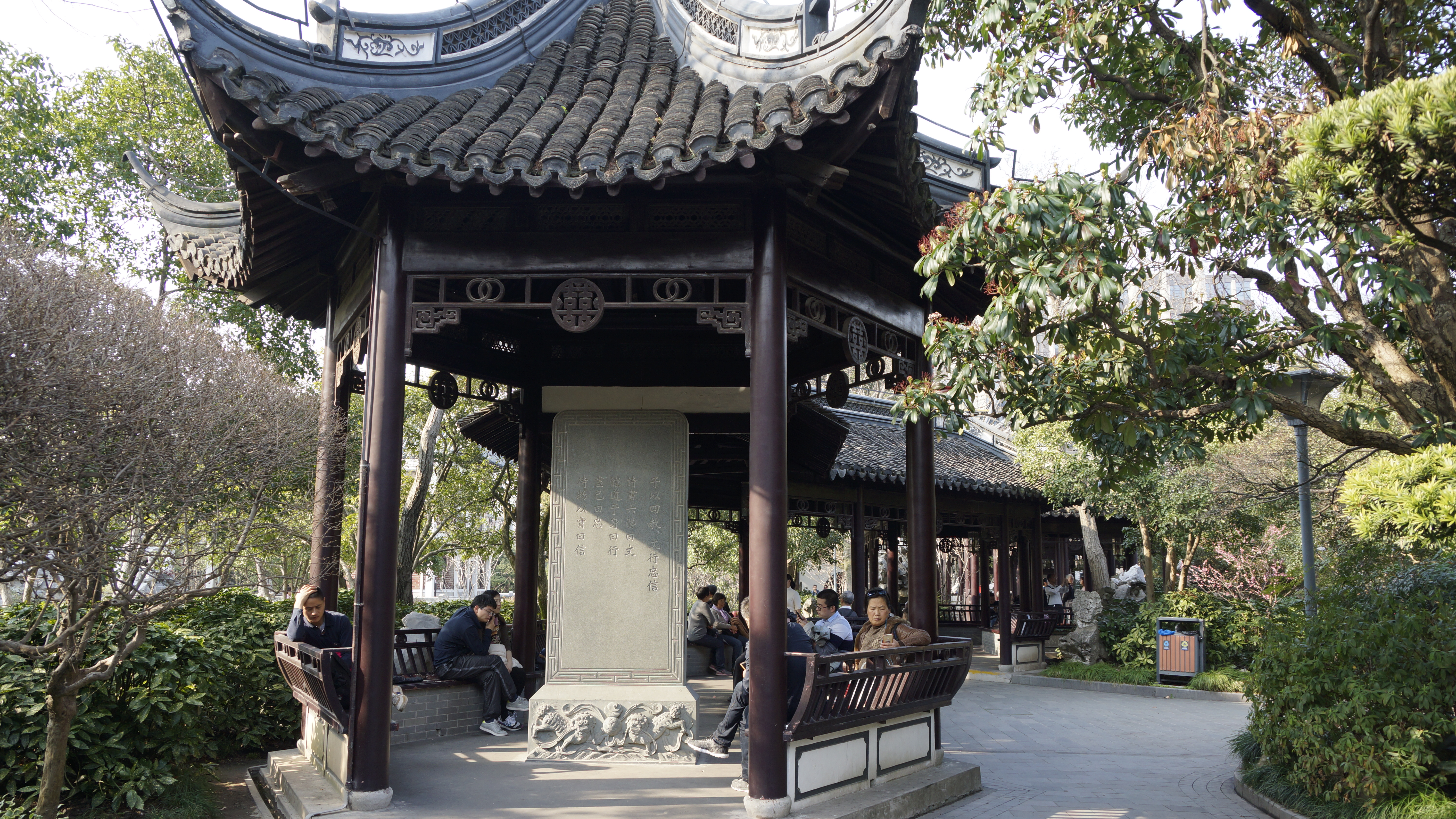 Stele in Guilin park. Xuhui district Shanghai China